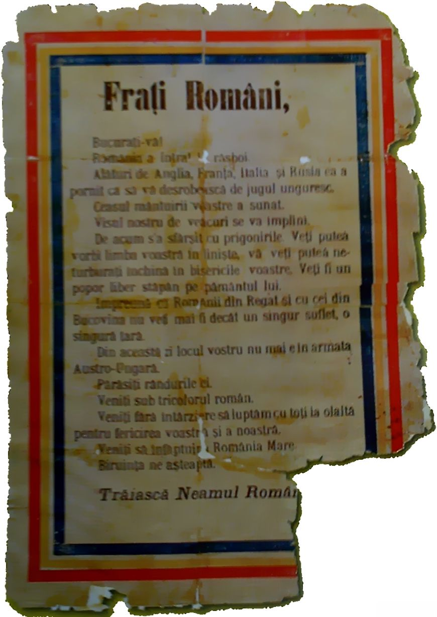 Airborne leaflet spread by the Romanian Army over Braşov in August 1916. The text reads: Romanian brethren, Rejoice! Romania entered the war. Along with England, France, Italy and Russia, Romania has proceeded to free you from the Hungarian yoke. The hour of your deliverance has come. Your centuries-long dream will come true. Starting today, gone are the persecutions. You shall be able to speak your native language and pray in your churches without fearing harm. You shall be a free people, master of its own land. Together with the Romanians from the Old Kingdom and Bukovina, you shall be one soul, one land. Starting today, your place is no longer in the Austrian-Hungarian Army. Leave its ranks. Come under the Romanian tricolor. Come all without delay to fight together for your happiness and for our happiness. Let us build Greater Romania, together. Victory awaits us. Long live the Romanian people!